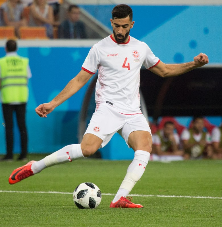 Yassine Meriah